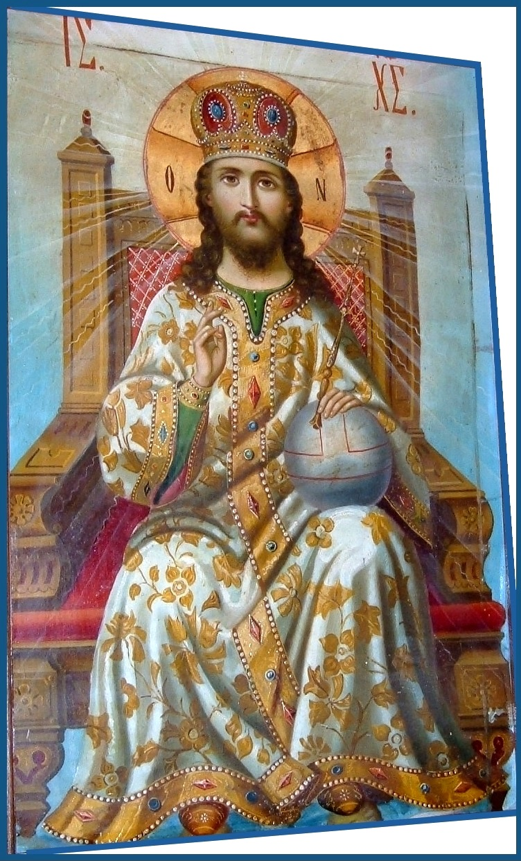 Christ Icon in Breznitsa_Vatochori Church